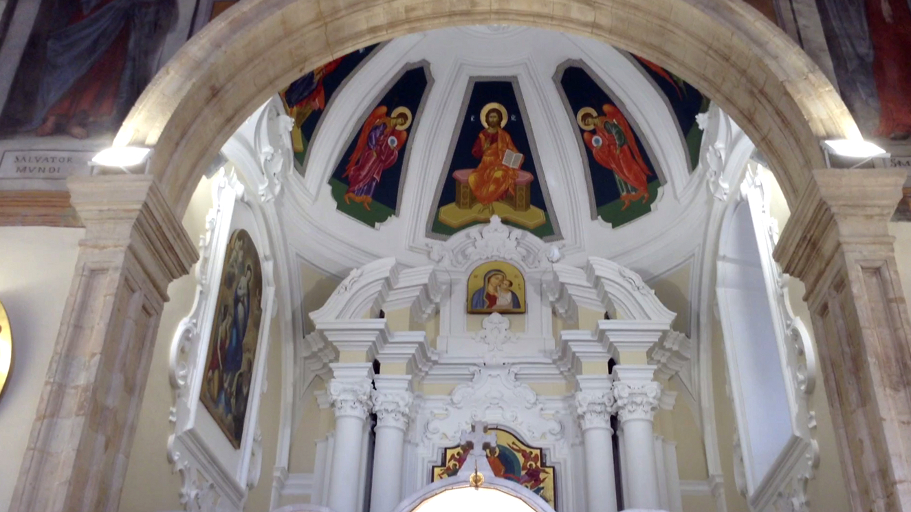 Chiesa del Santissimo Salvatore; inside view: Apse